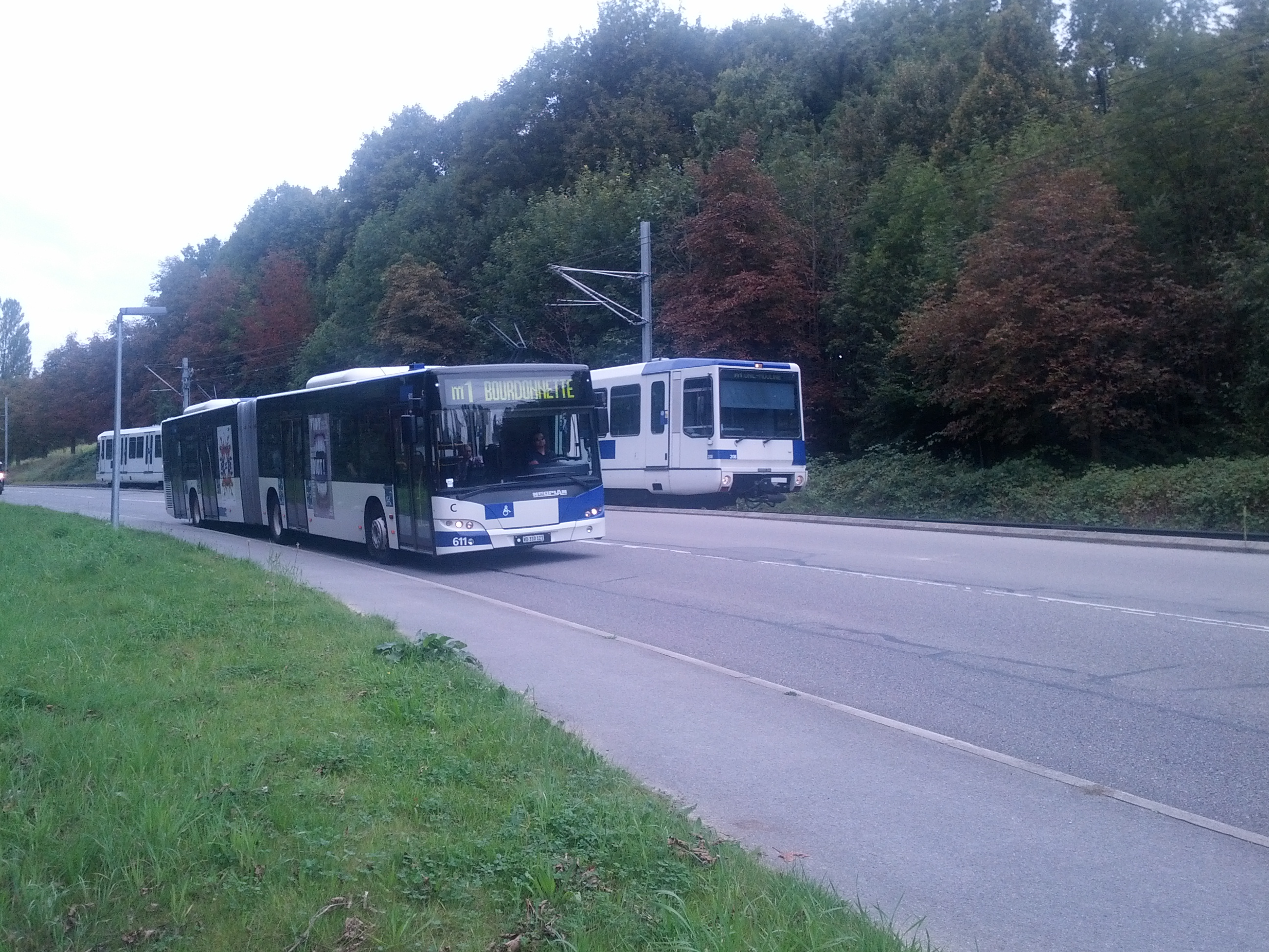 Bus TL nr 611 in substitution service of the metro M1 moving side-by-side with a self propelled unit of the metro M1 formed with the coupled Bem 4/6 nr 208 and 211.